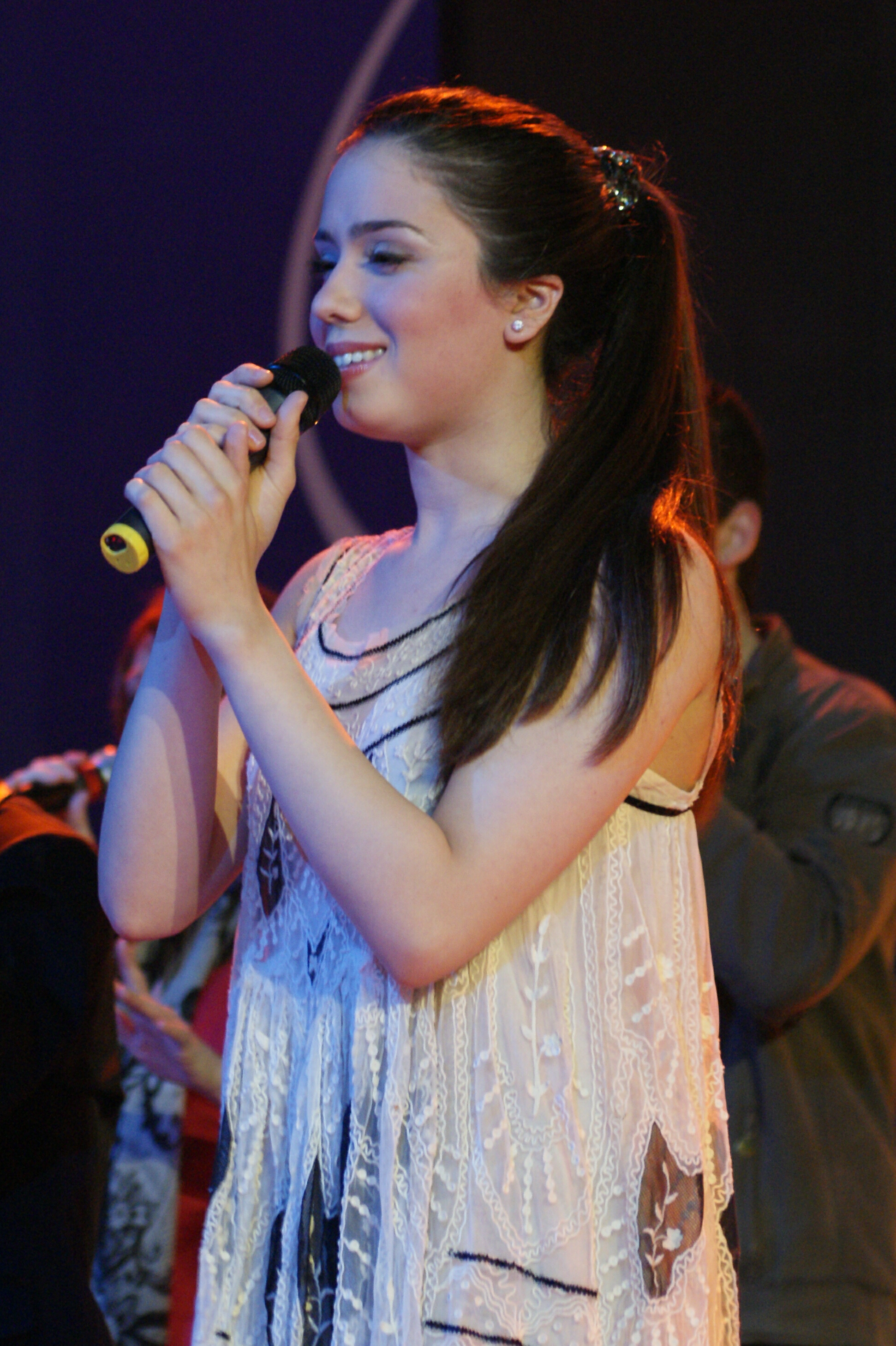 Christina Metaxa